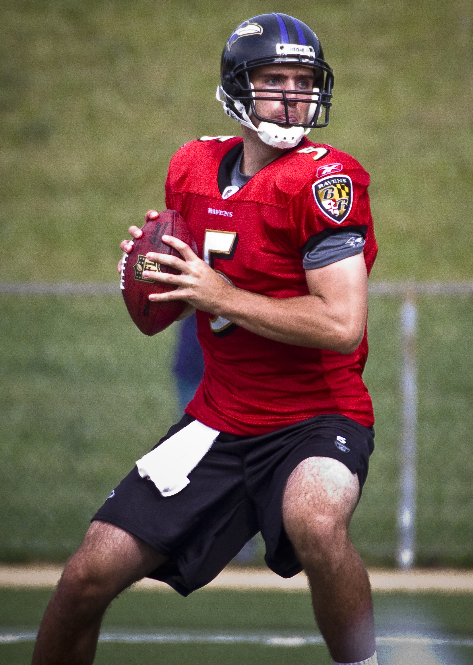 Joe Flacco of the Baltimore Ravens in training camp July 23rd, 2008